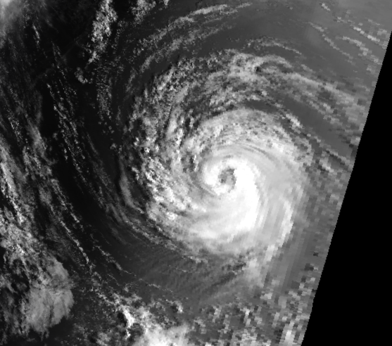 Image of Typhoon Zola near peak intensity, which occurred during the 1990 Pacific typhoon season.